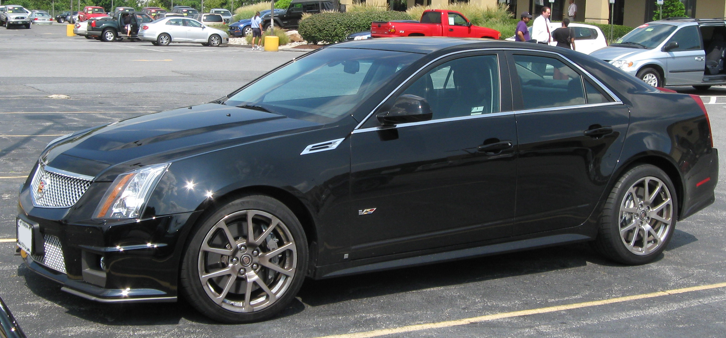 2009 Cadillac CTS-V photographed in Frederick, Maryland, USA.